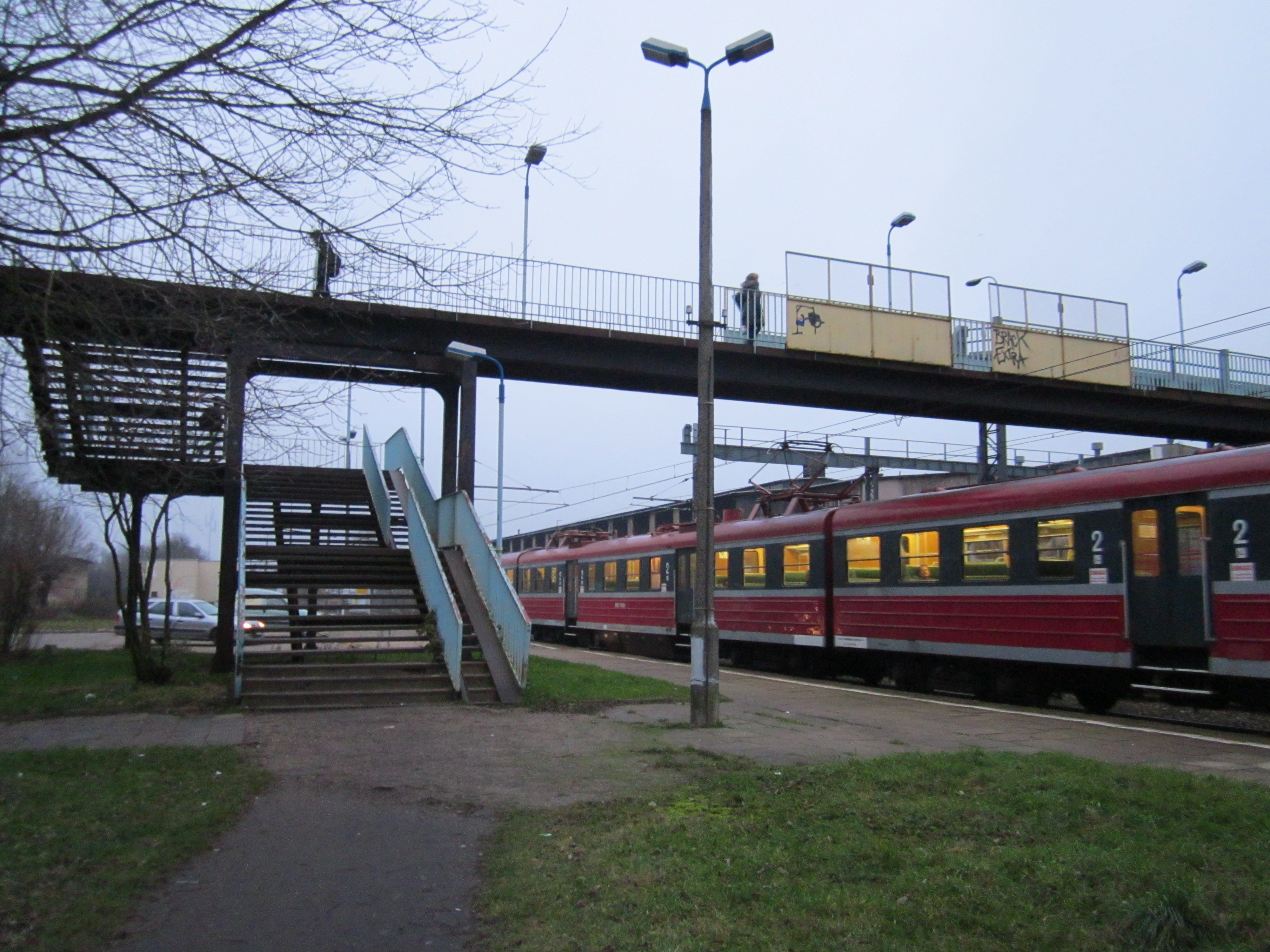 Białystok Starosielce train station